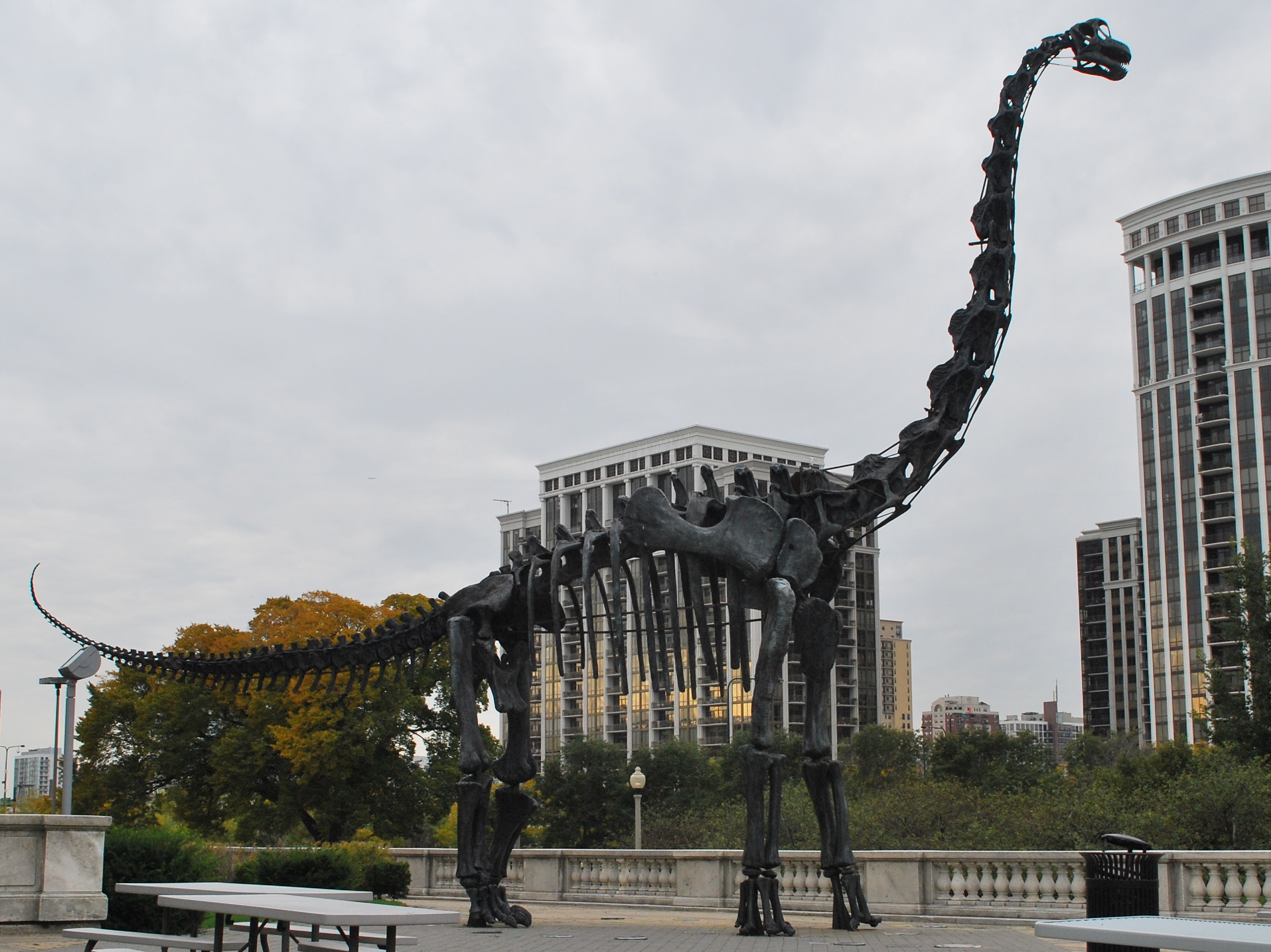 Bronze Brachiosaurus mount outside of the Field Museum of Natural History, Chicago, IL.